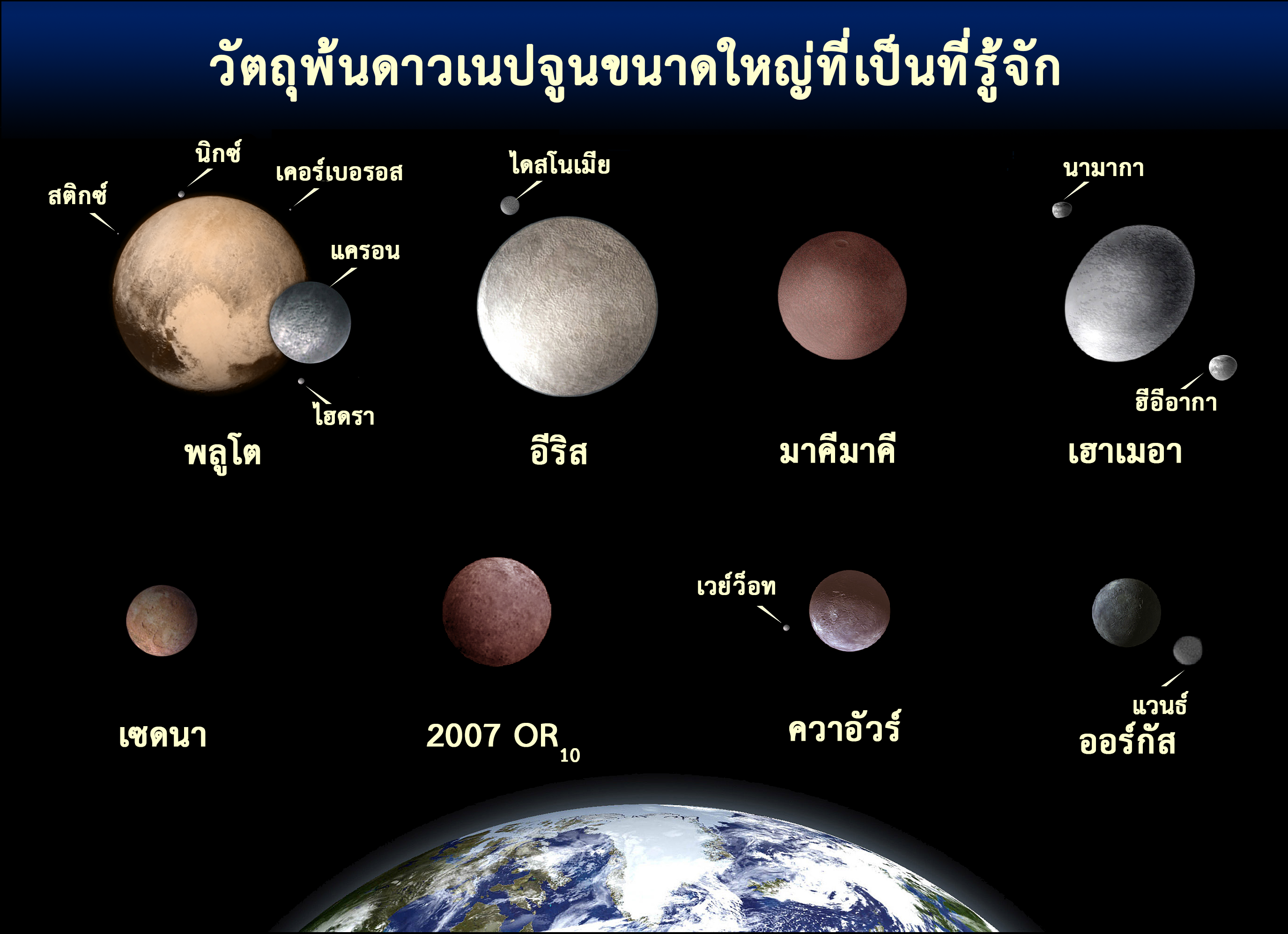 Comparison of the eight largest TNOs